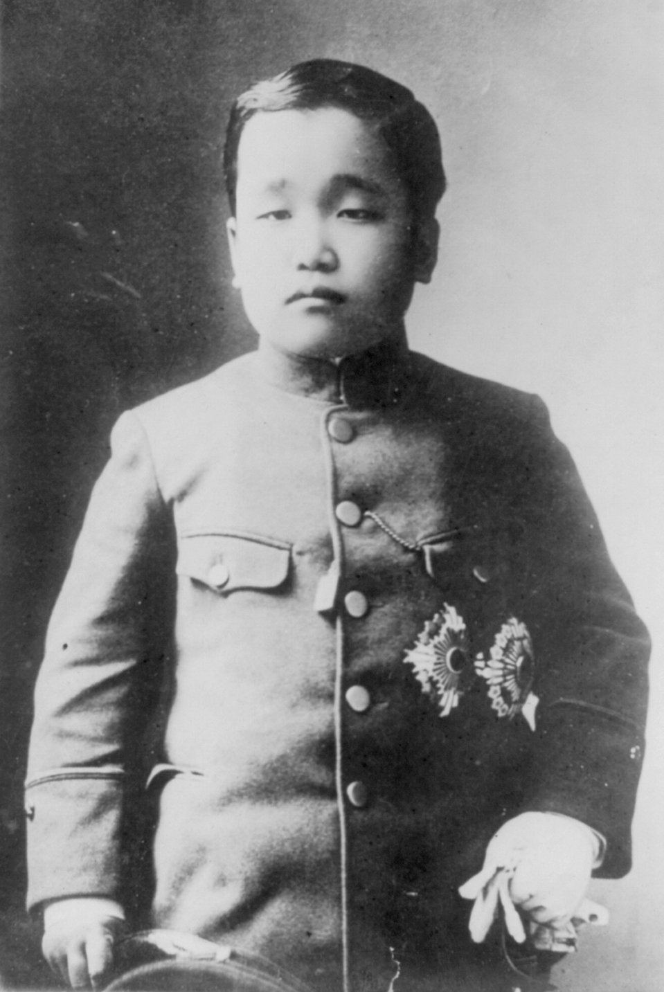 Crown Prince of Korea Yi Un